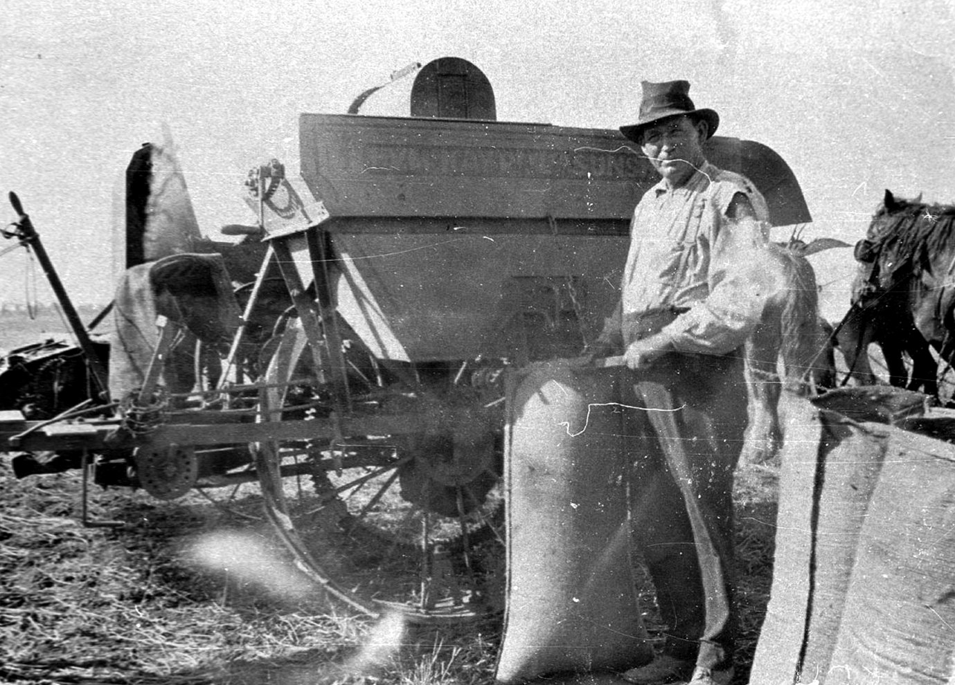 Format: Negative Notes: Find more detailed information about this photograph: .au/item/itemDetailPaged.aspx?itemID=388314 Search for more great images in the State Library's collections: .au/search/SimpleSearch.aspx From the collection of the State Library of New South Wales